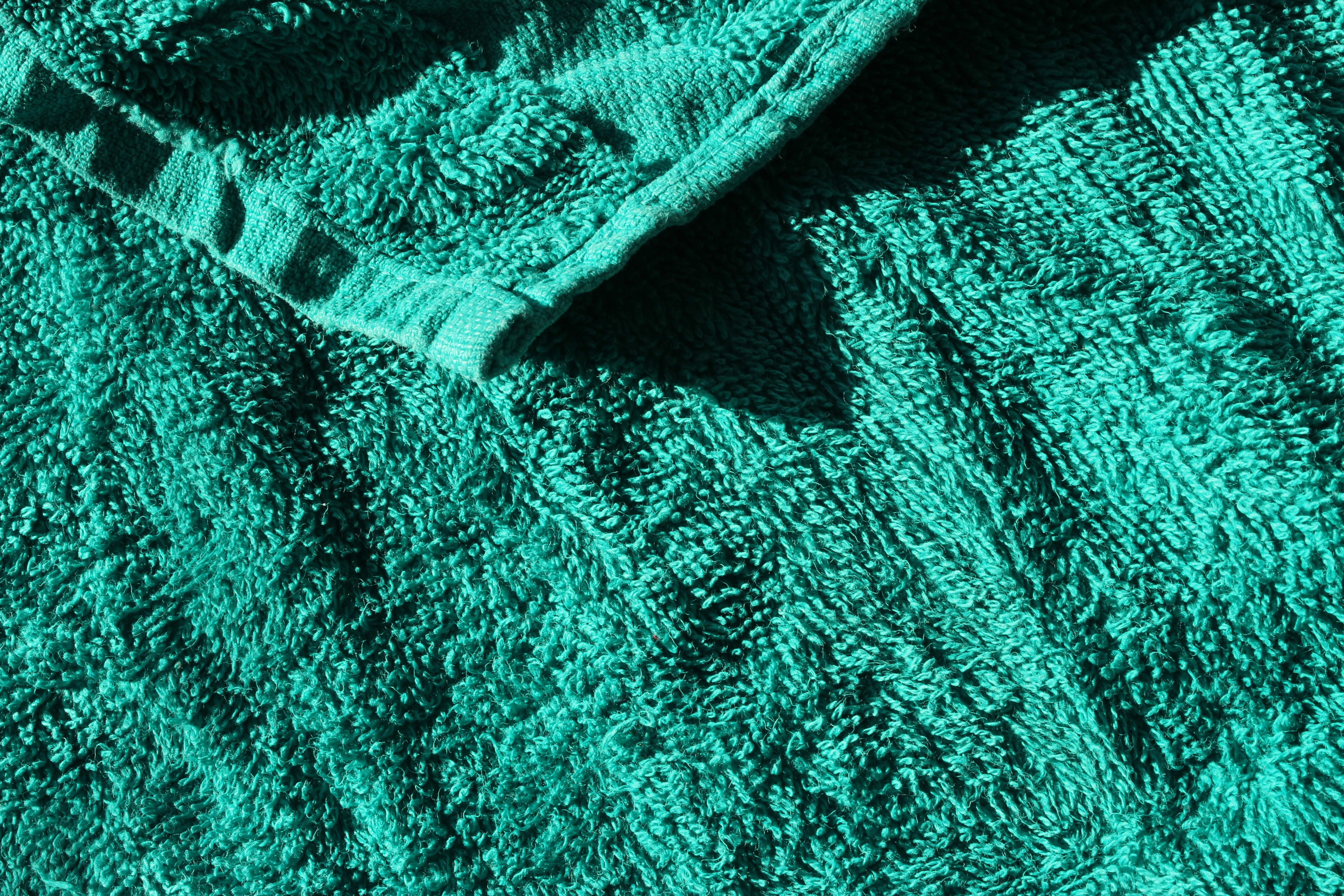 Close-up of a green terry cloth towel.